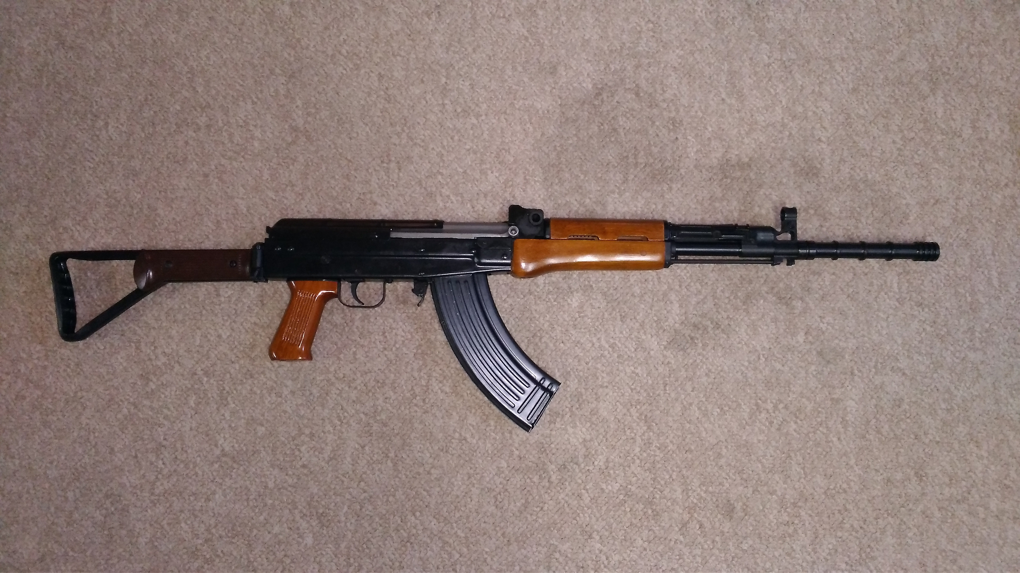 Canadian civilian legal version of of the Type-81 rifle with 475 mm (18.7 in) barrel.